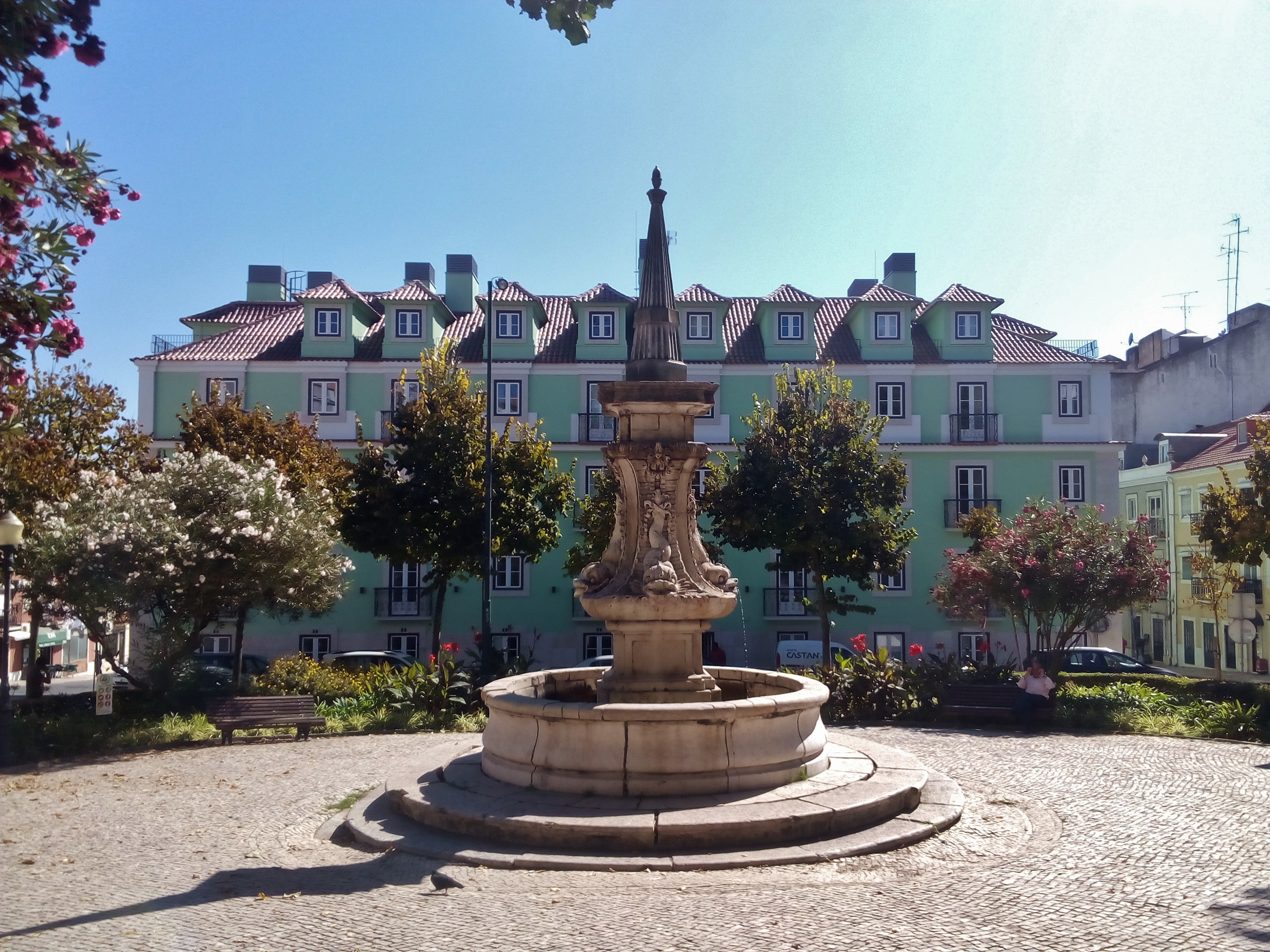 Largo do Mastro, in Lisbon, Portugal. Photographed on 7 October 2017.